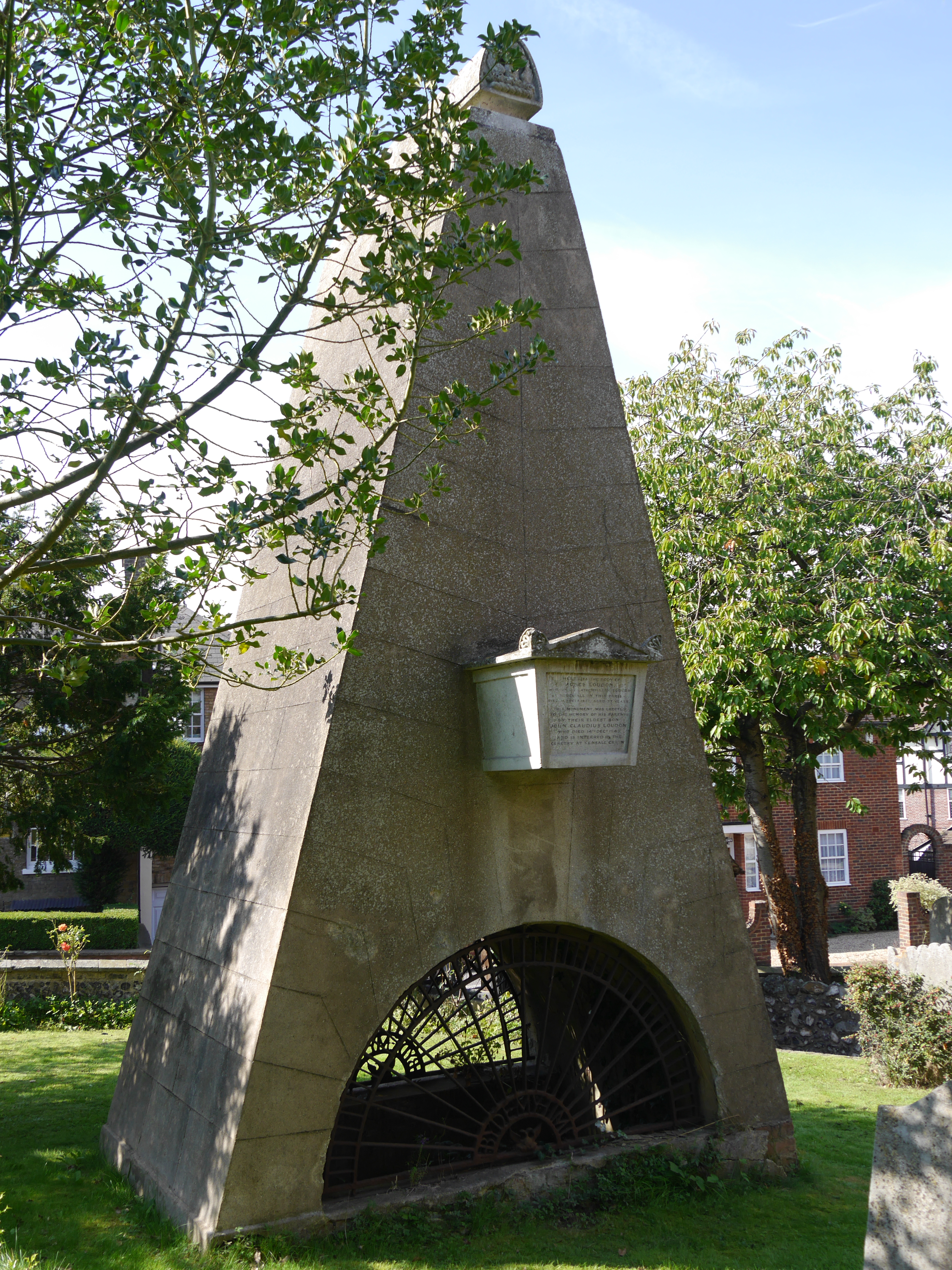 St John the Baptist, Pinner, September 2015